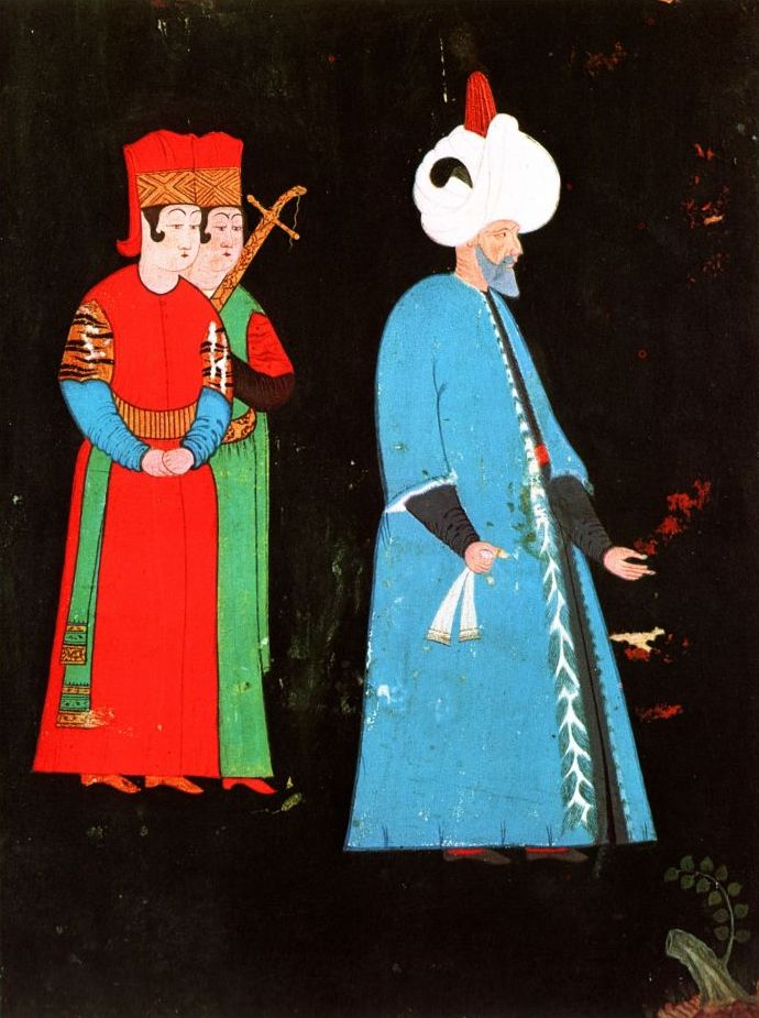 Miniature depicting the aged Suleiman I. followed by his two has-oda aghas.